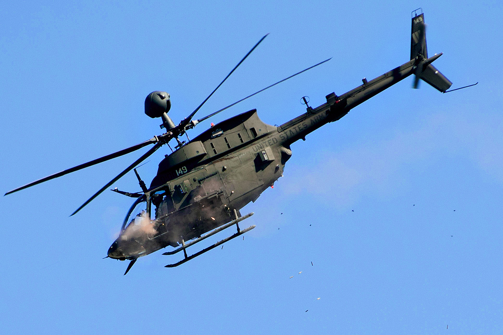 An OH-58 Kiowa helicopter fires its .50 caliber machine gun during a strafing run on a mock enemy compound during a live-fire exercise at the Joint Readiness Training Center on Fort Polk, La., Jan. 14, 2012.